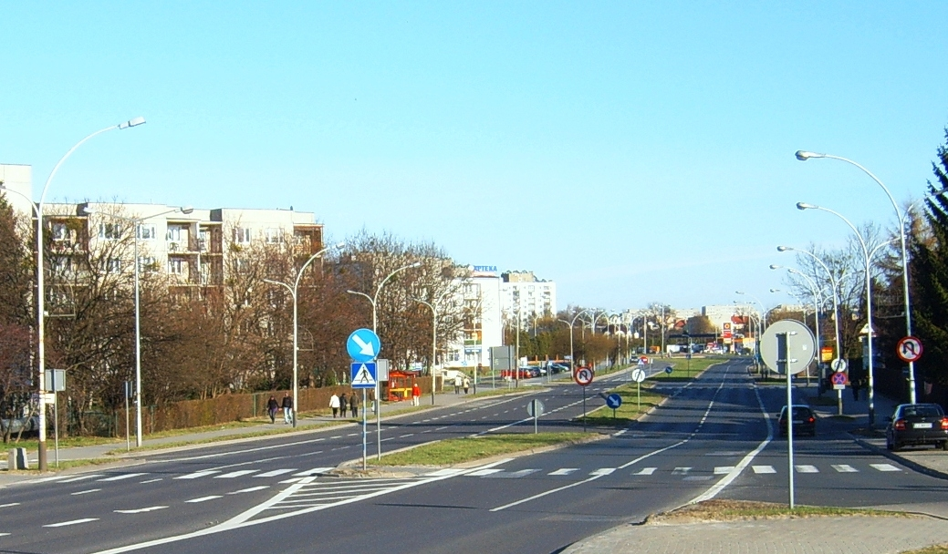 S. Wyszyński Street in Zamość